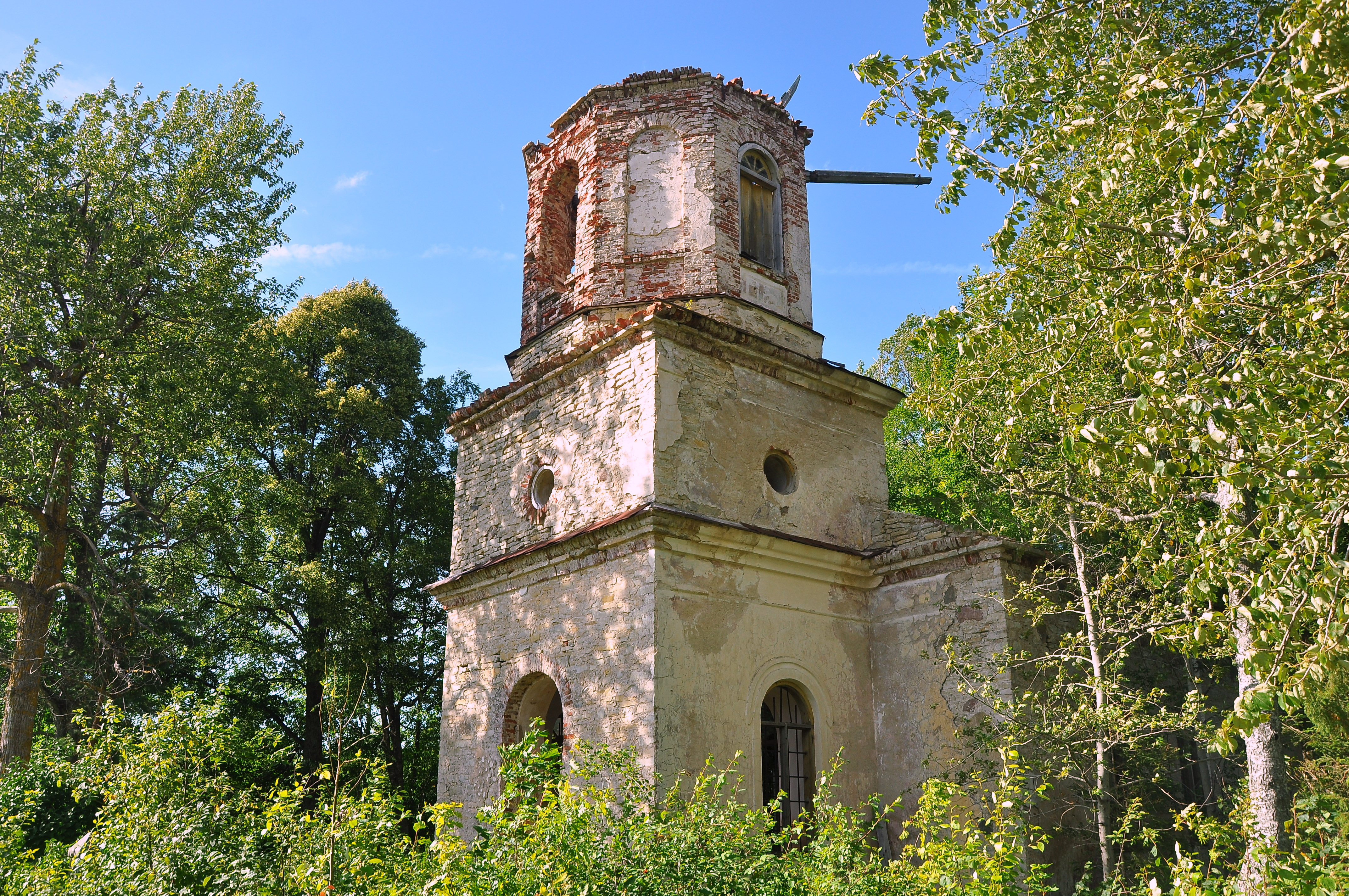 Kalli orthodox church